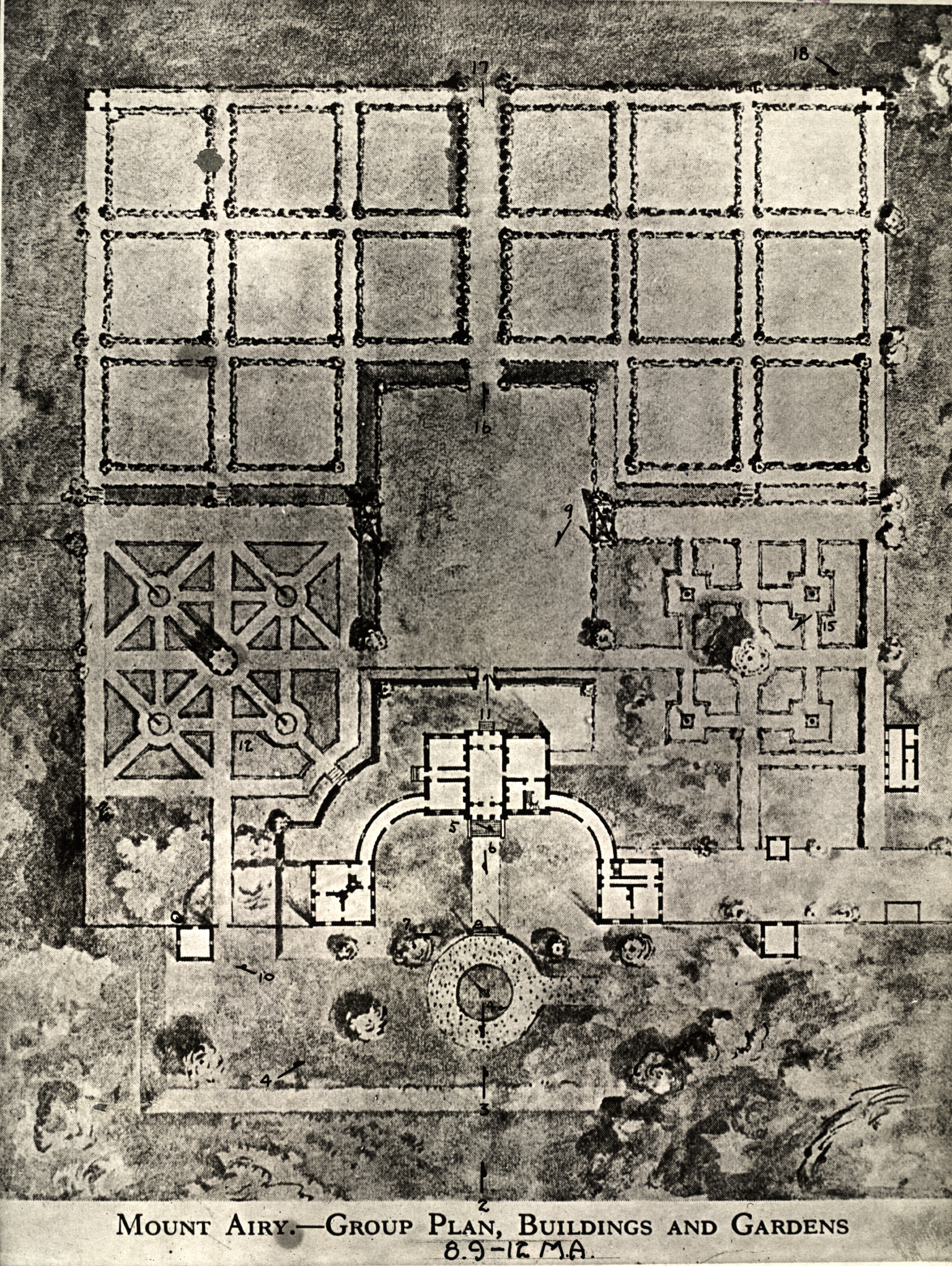 Collection: A. D. White Architectural Photographs, Cornell University Library Accession Number: 15/5/3090.00568 Title: Mount Airy Plantation (Colonel John Tayloe Plantation). Group Plan, Buildings and Gardens Architect: John Ariss Building Date: ca. 1758 Photograph date: ca. 1910-ca. 1950 Location: North and Central America: United States; Virginia, Richmond County Materials: gelatin silver print Image: 9 x 6 3/4 in.; 22.86 x 17.145 cm Provenance: Transfer from the College of Architecture, Art and Planning Persistent URI: There are no known U.S. copyright restrictions on this image. The digital file is owned by the Cornell University Library which is making it freely available with the request that, when possible, the Library be credited as its source. We had some help with the geocoding from